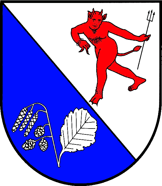 Coat of arms of the municipality Talkau in Schleswig-Holstein, Germany.